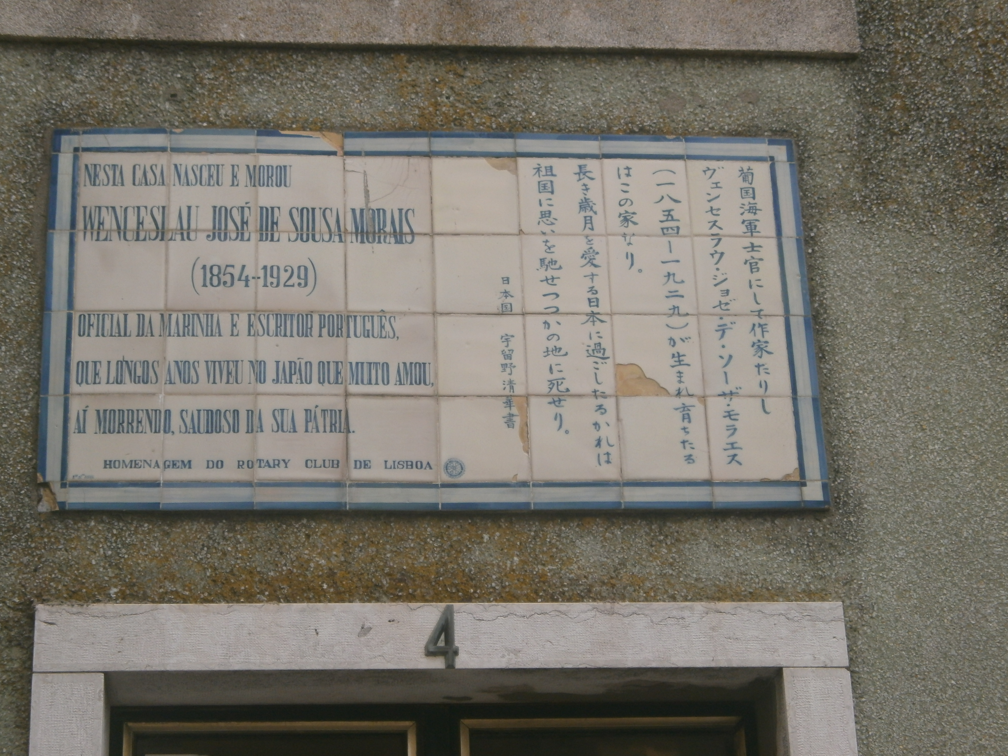 A plate indicating that this is the birthplace of Venceslau Morais (1854-1929), a Portuguese military servant and writer who spent most of his life in Japan.